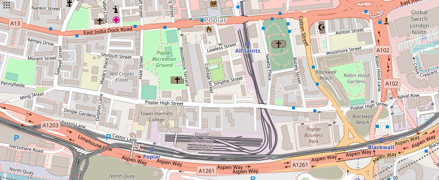 Poplar High Street on Open Street Map 2018.01.16 Map of Poplar High Street, Tower Hamlets This map of Poplar, London was created from OpenStreetMap project data, collected by the community. This map may be incomplete, and may contain errors. Don't rely solely on it for navigation.